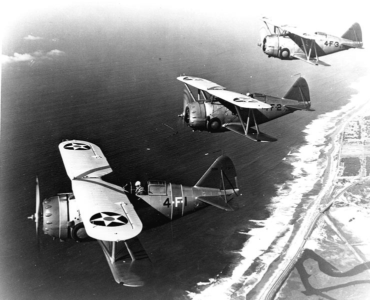 Three Grumman F3F-1 fighters of U.S. Navy fighter squadron VF-4 from the aircraft carrier USS Ranger (CV-4) over Southern California, January 1939. The F3F BuNo 0261 is in the foreground.